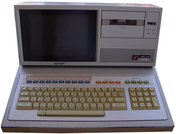 A Sharp MZ-80B microcomputer.